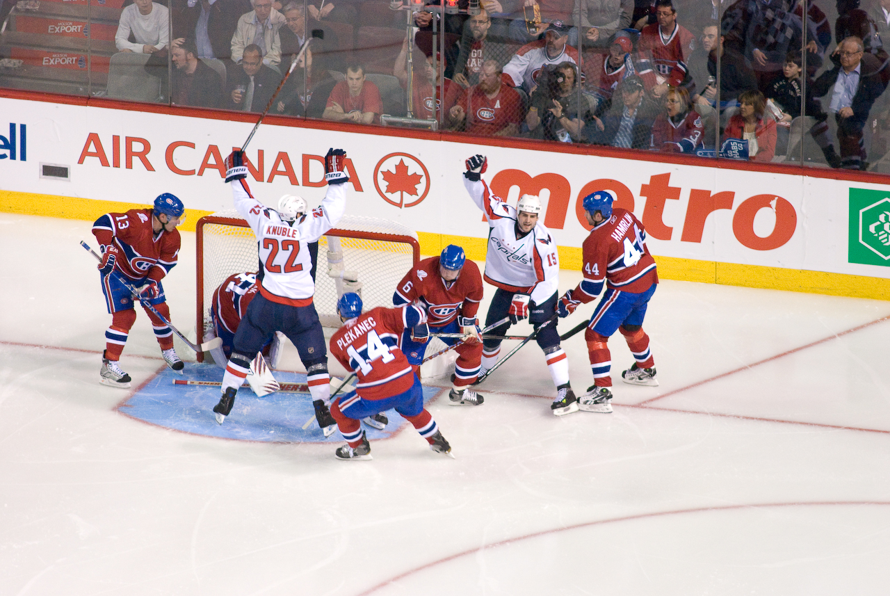 3rd match of the Eastern Conference quarterfinals in the 2010 Stanley Cup playoffs between the Montreal Canadiens and the Washington Capitals. First goal of the game.